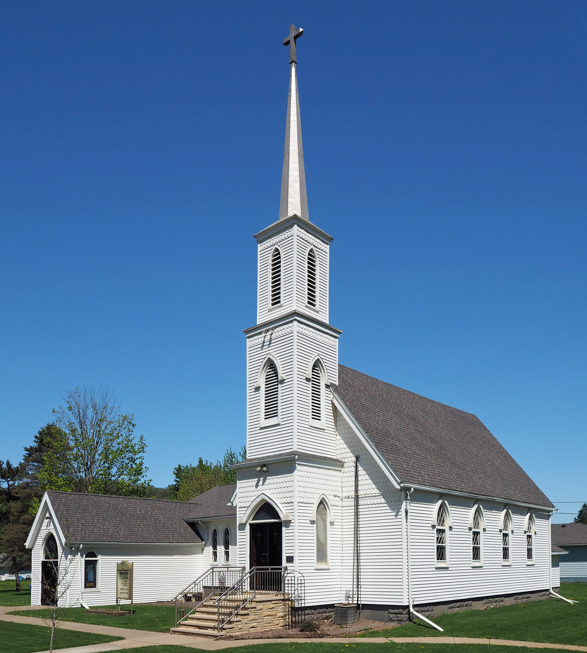 Grace Evangelical Lutheran Church (formerly Trinity Episcopal Church), Stockton, Minnesota, USA. Viewed from the southeast.